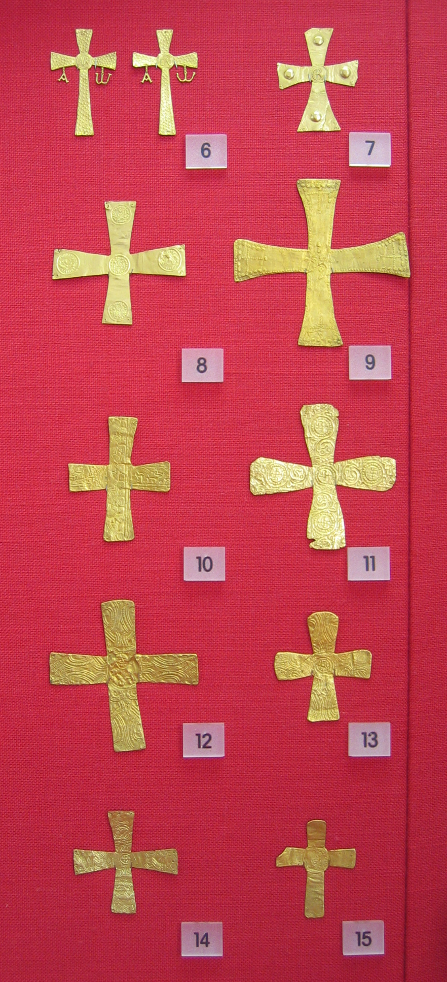 Gold foil crosses from several Langobardic graveyards in Italy